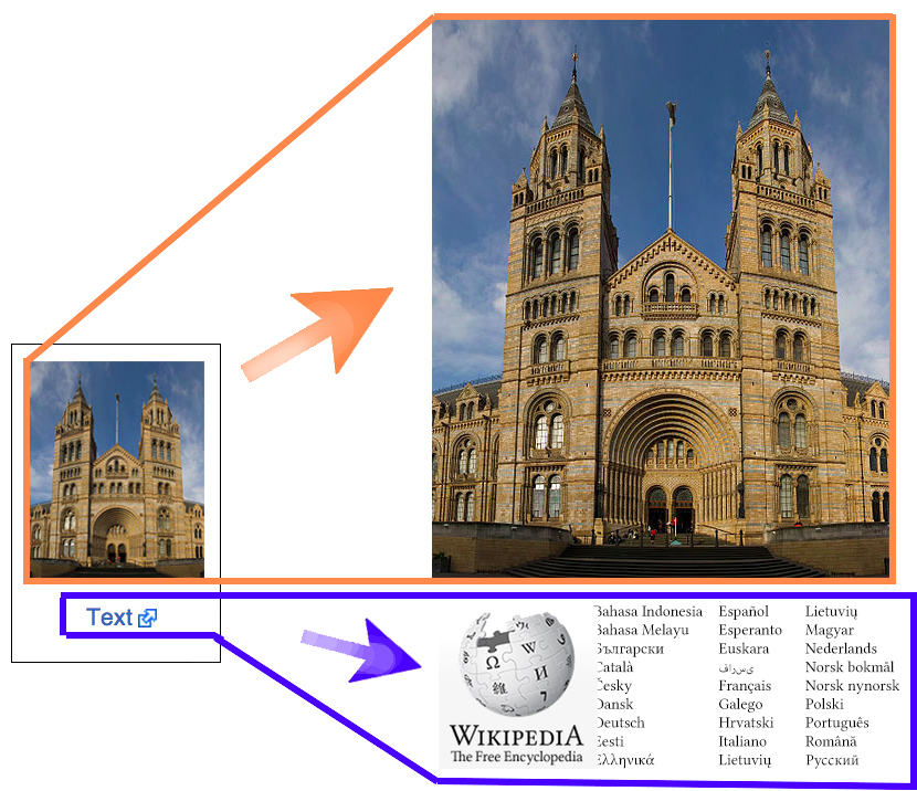 Wordless instructions for NHM virtual museum version 2